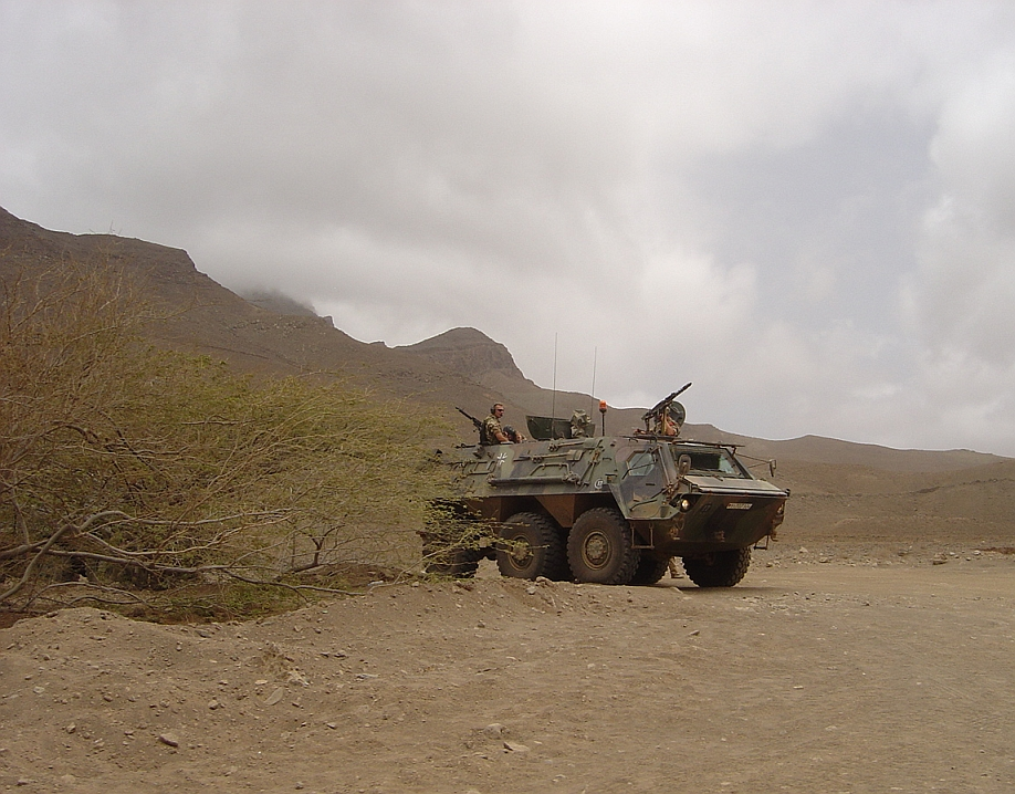 A German armoured personnel carrier Fuchs of the Jägerbataillon 292 during the NATO exercise Steadfast Jaguar 2006, in S. Vicente, Cape Verde.